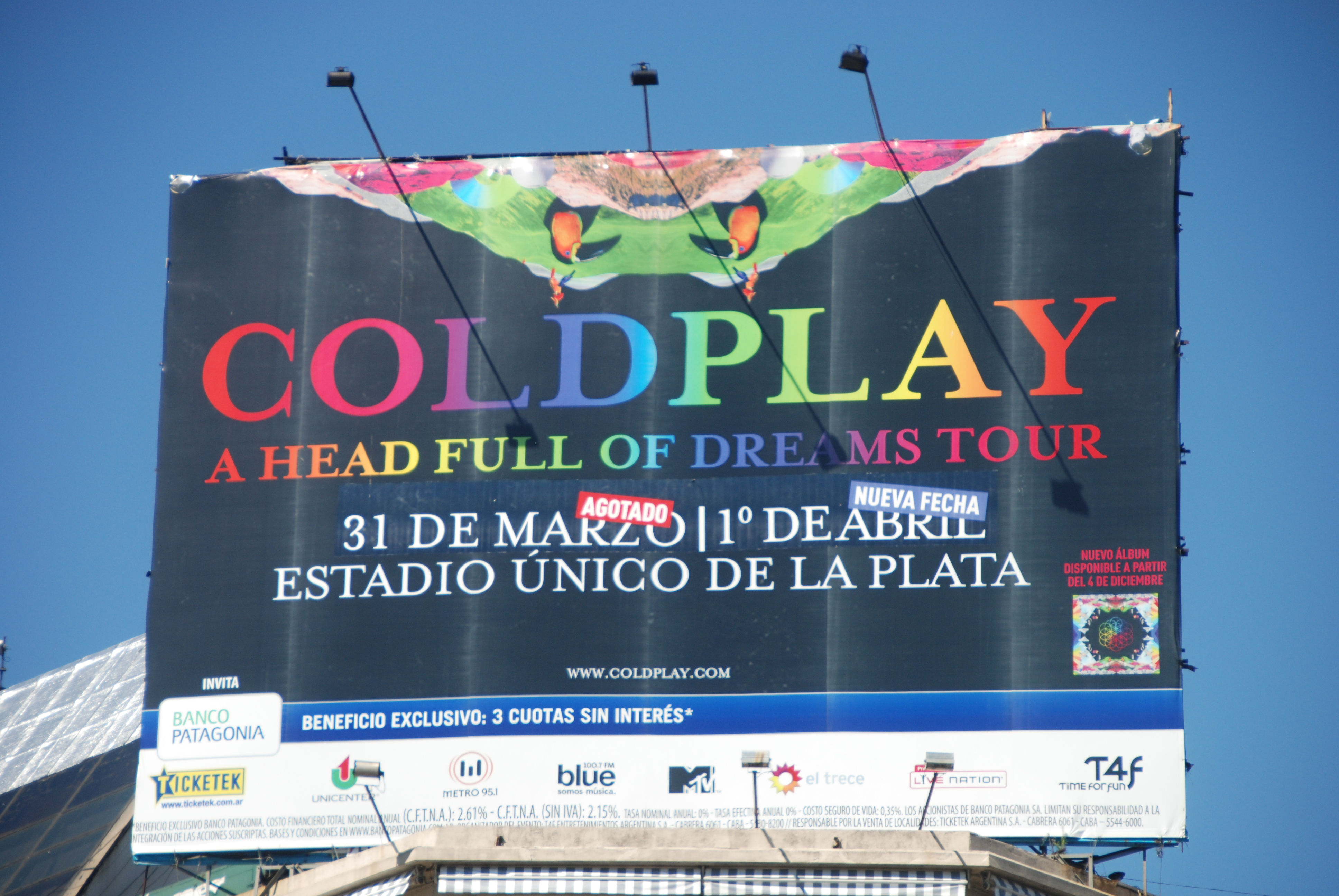 Promotional outdoor for the tour of the album A Head Full of Dreams, which is scheduled to take place on March 31 and April 1 in Buenos Aires, capital of Argentina.